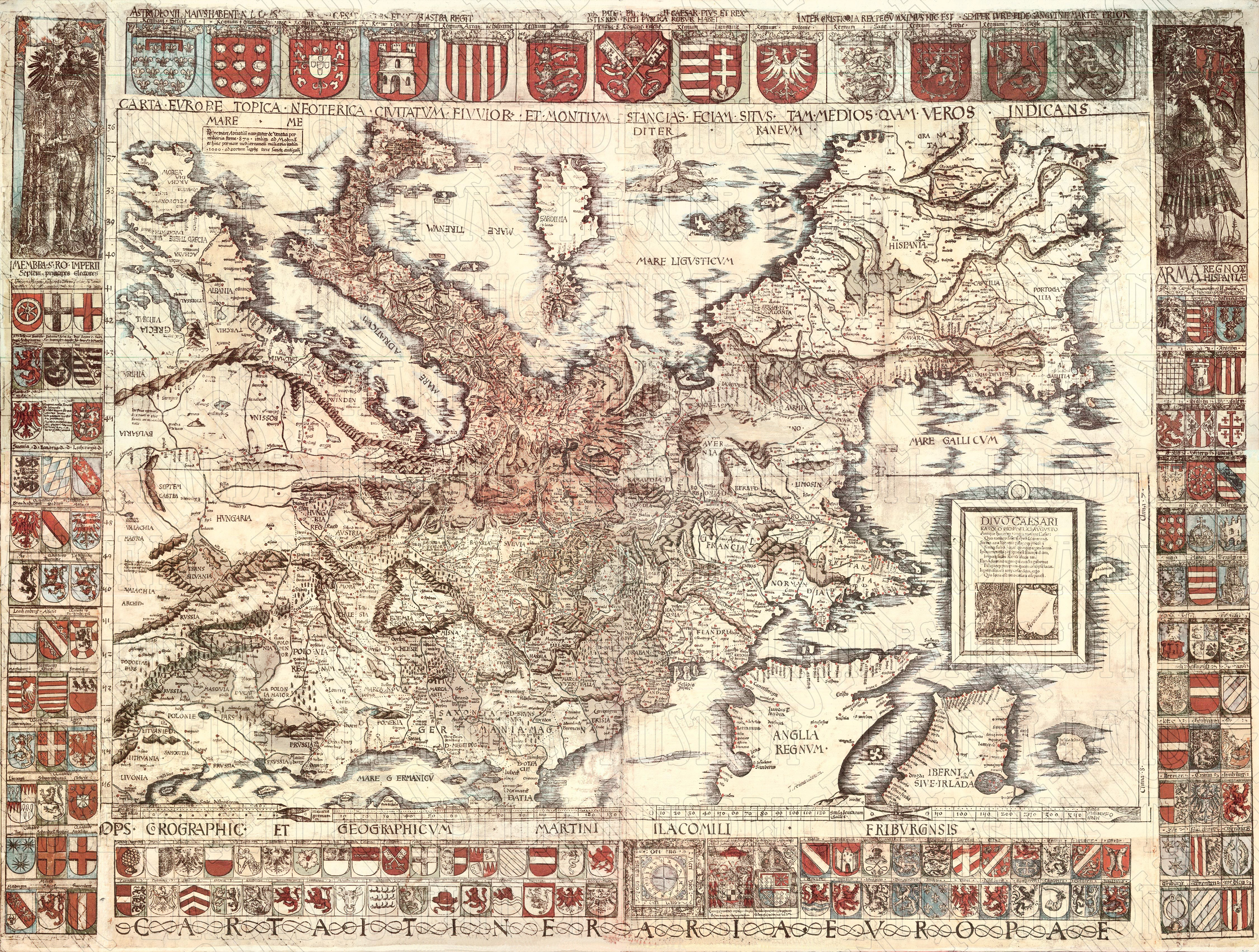 Map of Europe drawn by Martin Waldseemueller dedicated to godly Emperor, the devotional the beatifical great Charles V (Emperor of the Holy Roman Empire 1519–1556); Map has south direction on top edge of the sheet, scanned map got stamped and watermarked.